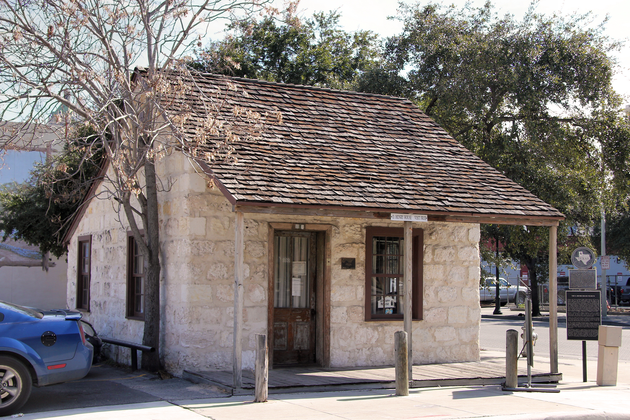 The O. Henry House Museum in San Antonio, Texas, United States